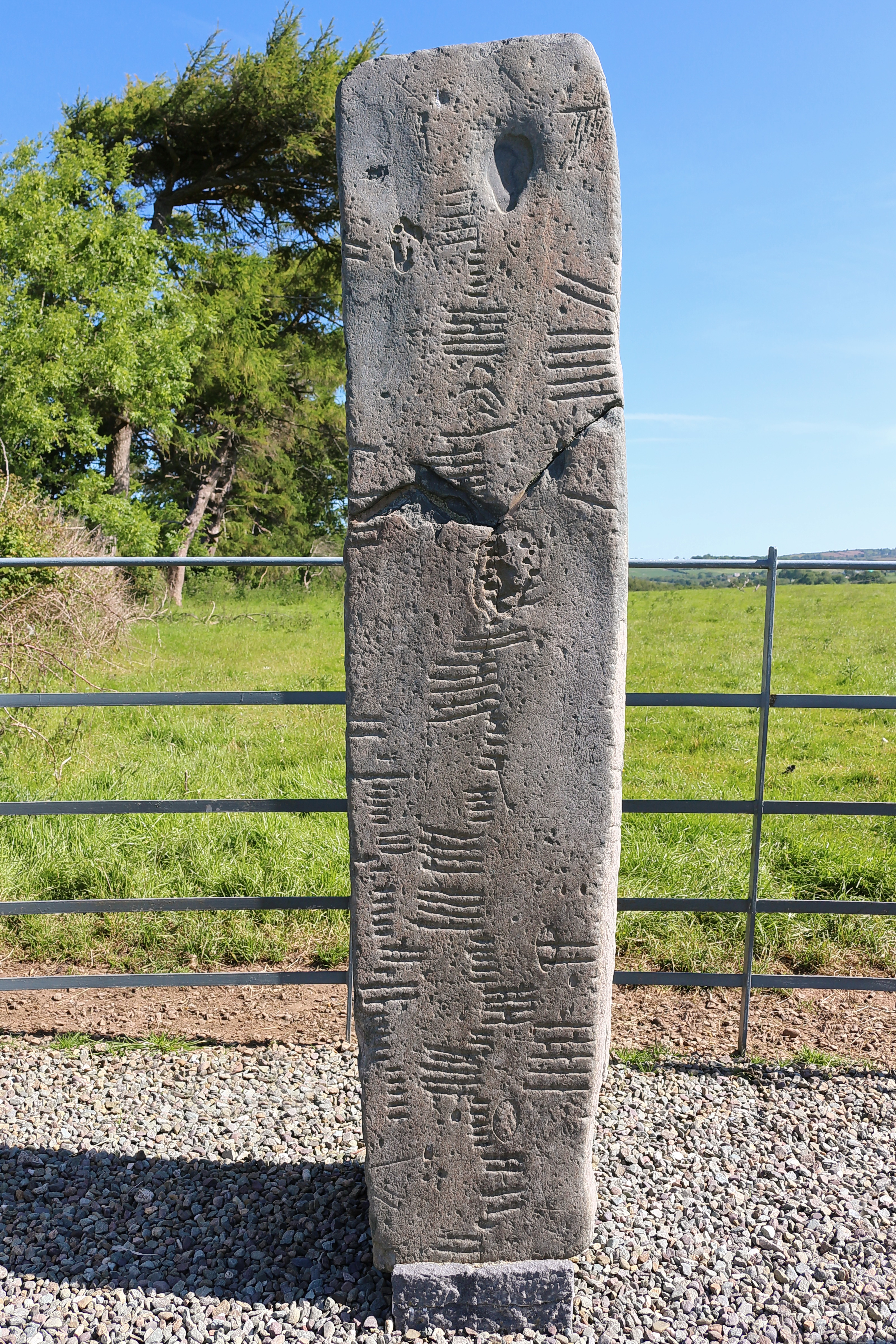 Dunloe Ogham Stone CIIC 241, Beaufort, Co. Kerry, Ireland